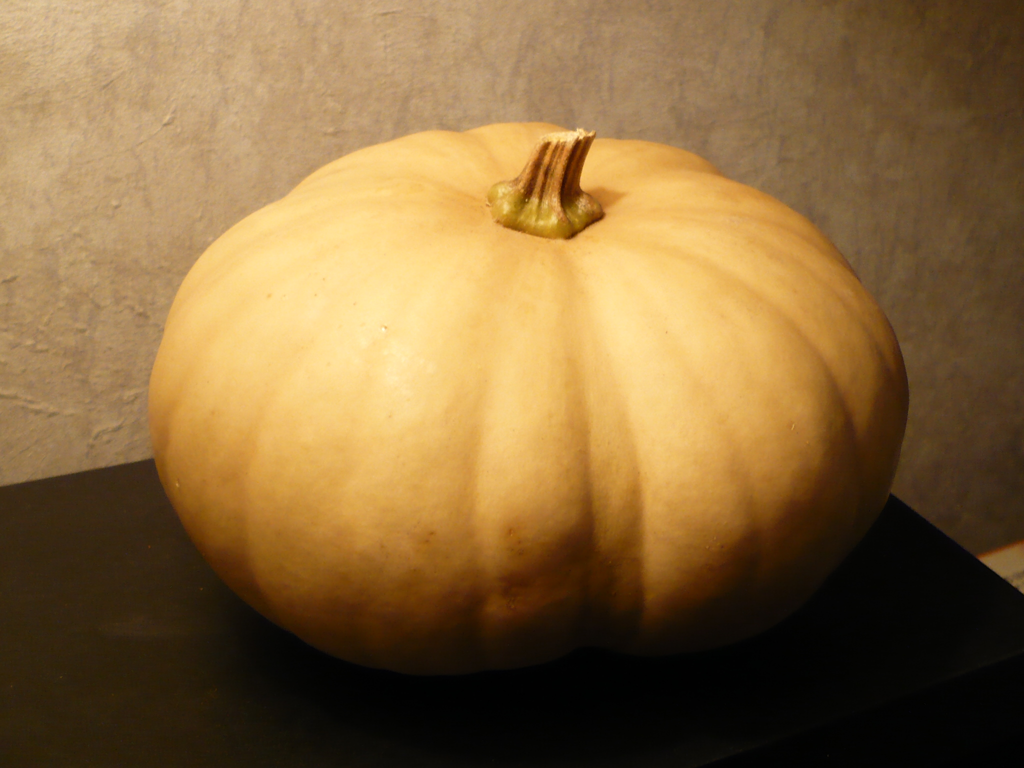 A Long Island Cheese squash (species Cucurbita moschata, a large variety of winter squash). Long Island Cheese squash purchased in Cuyahoga Falls, Ohio, United States. It is so named because its exterior resembles a wheel of cheese, in shape, color, and texture. Photo taken in Kent, Ohio, United States.